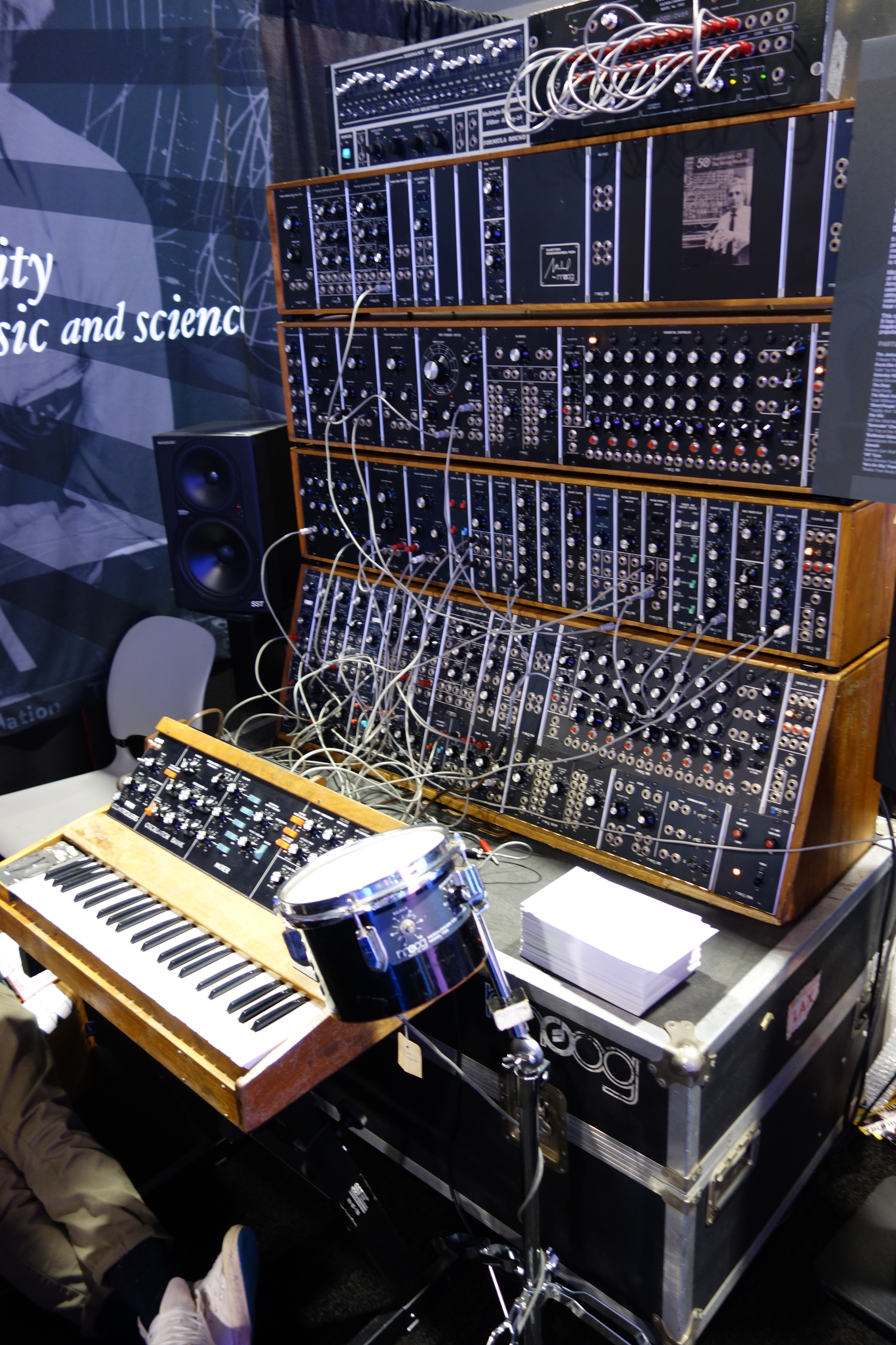 Michael Boddicker modular synthesizer — exhibited by Bob Moog Foundation on Winter NAMM 2015 1976 Expanded System 55 Moog Modular Synthesizer 1975 Moog Minimoog 1979 Moog Bode Vocoder 1979 Formula Sound Multiple Resonance Filter Array and ???? Moog Percussion Controller Model 1130 References Bob Moog Foundation Modular Legacy at NAMM: in 2015, the Michael Boddicker modular synthesizer. Bob Moog Foundation (2015-01-20). "It’s time for the 2015 NAMM show, and the Bob Moog Foundation is once again featuring a historically important Moog modular system. This year, it’s our honor to present the iconic Moog modular of Michael Lehmann Boddicker. / It may very well be the Moog modular that you’ve heard the most in your life, even if you’ve never heard of it. ..." NAMM 2015: Bob Moog Foundation News - Legendary modular synth to be on show and new 'Vo company launched. (2015-01-20). Winter NAMM 2015 in photos: sharing Bob’s legacy with Michael Boddicker’s modular. Bob Moog Foundation (2015-02-06). From Bob Moog to Michael Boddicker: waves of inspiration through time and space. Bob Moog Foundation (2015-02-11). (see panel) Michael Boddicker archives. Bob Moog Foundation. Bode Vocoder Model No. 7702 - 16 channel model of the Bode Vocoder (manual), Tonawanda, NY: Bode Sound Co. Formula Filter Array 24. MATRIXSYNTH (2007-07-16). (1979) Servce Manual for moog Accessories, Norlin Music / Moog Music Inc “Sample and Hold model 1125 / Ribbon Controller model 1150 / Foot Switch model 1121 / Percussion Controller model 1130 / Foot Pedal Controller model 1120 ...”